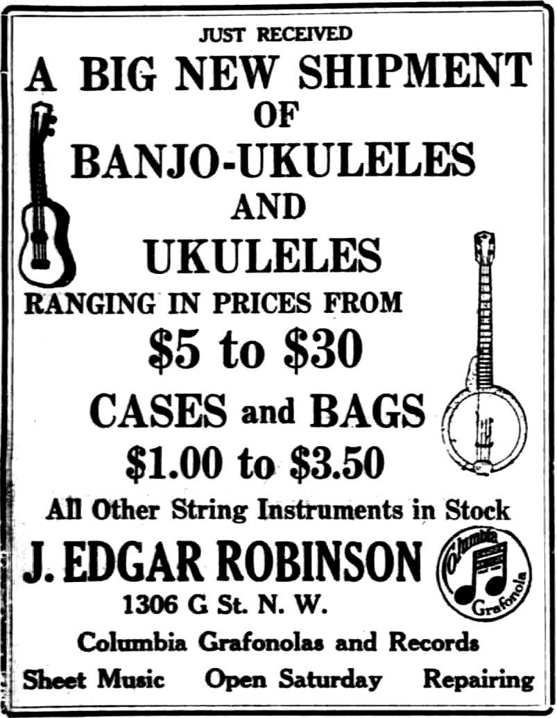 George E. K. Awai and his Royal Hawaiian Quartet popularized the small, guitar-like instrument when they performed at the Panama Pacific International Exposition at San Francisco in 1915. From then on to the early 1920s, the ukulele became popular on the mainland United States. “Just received a big new shipment of banjo-ukuleles and ukuleles ranging in prices from $5 to $30 cases and bags. $1.00 to $3.50 all other string instruments in stock.” “J. Edgar Robinson” Banjo & Ukulele Washington times, July 17, 1919, Image 11